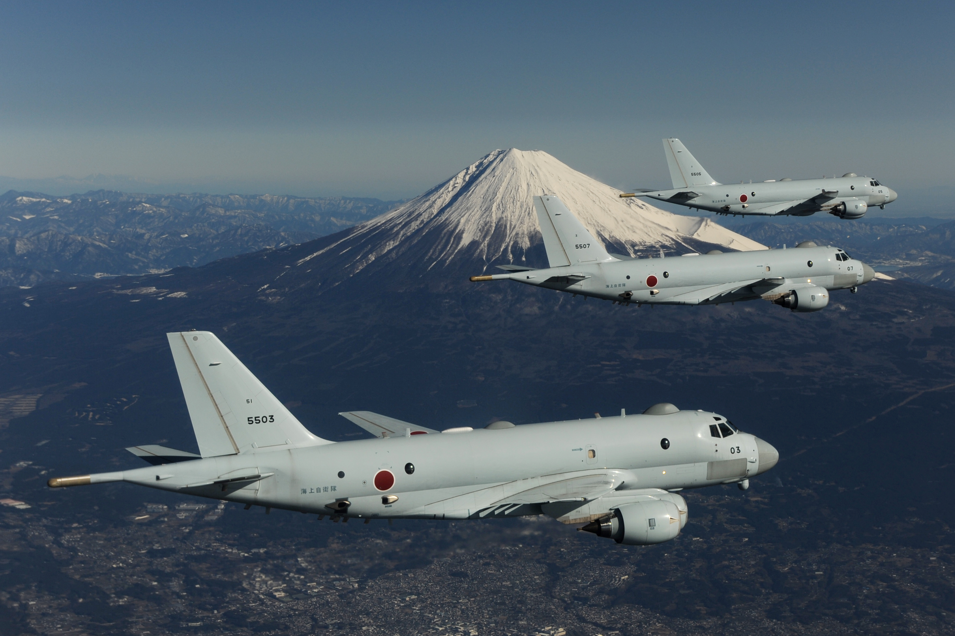 3 JMSDF Kawasaki P-1 in flight with Mount Fuji in the background